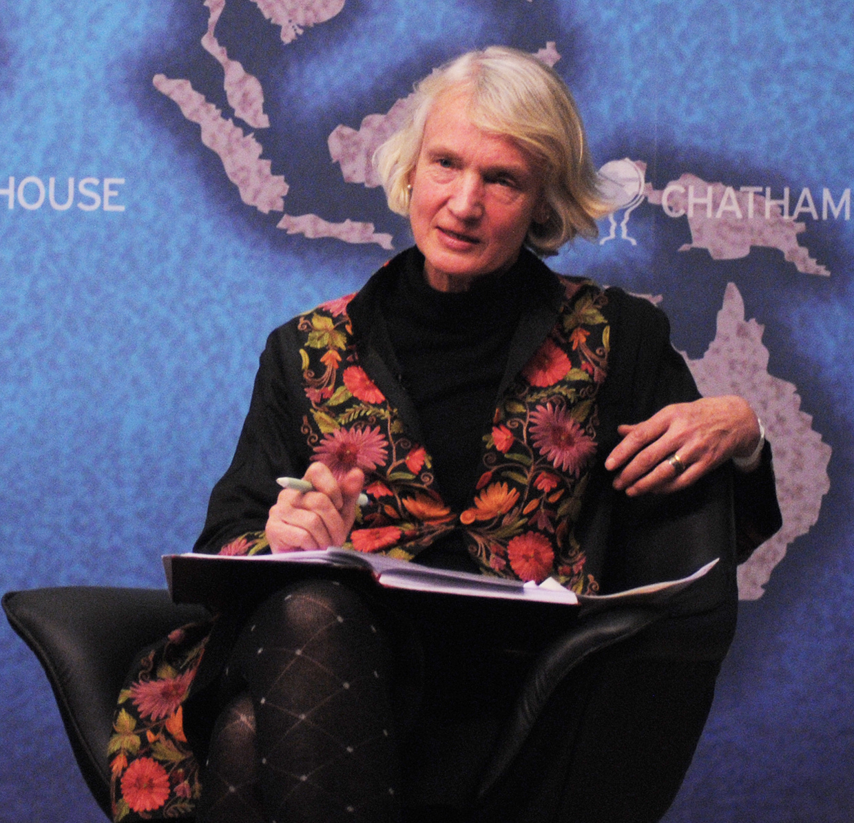 Mali: From Crisis Intervention to Potential Recovery, 19 February 2013